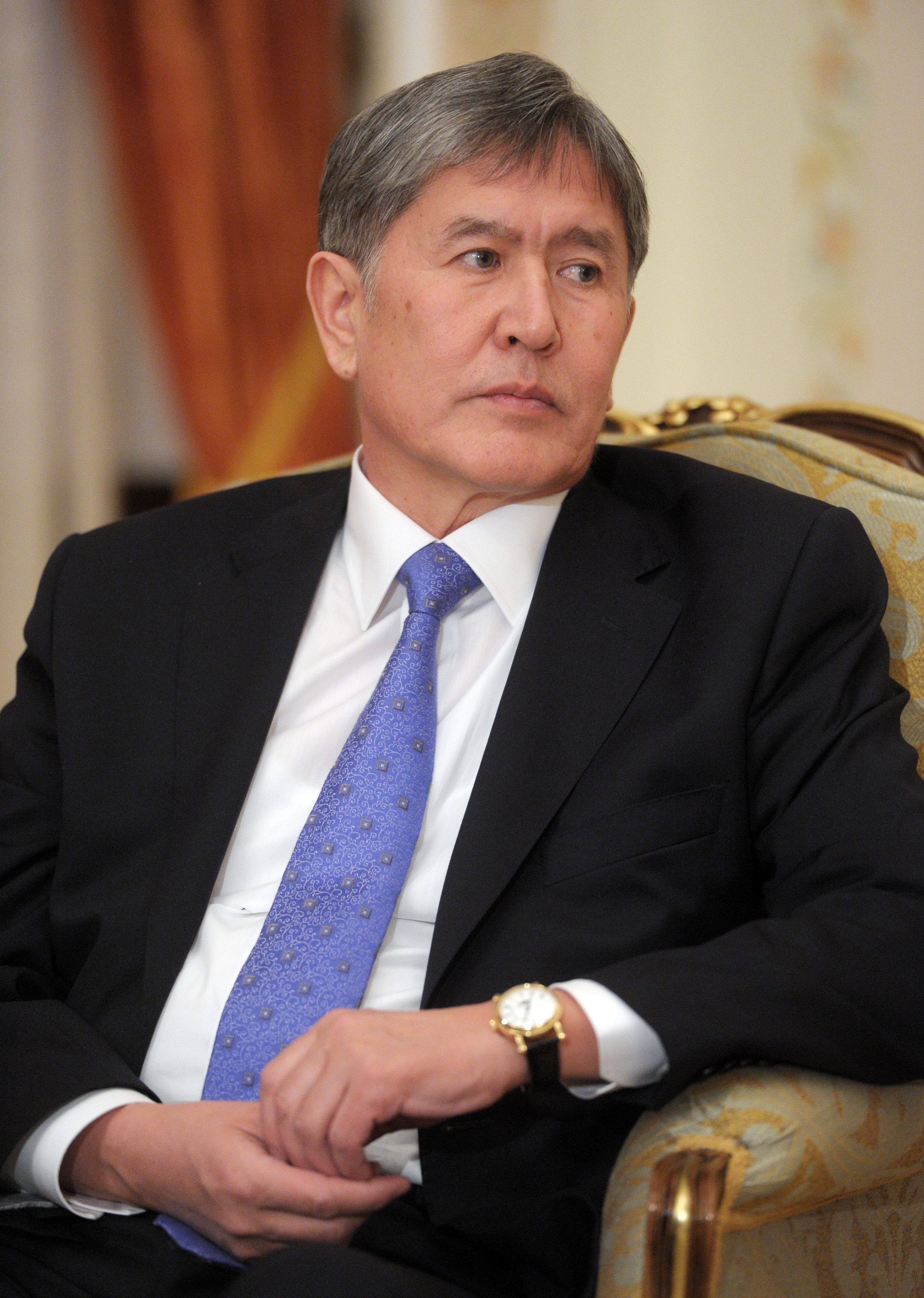 Kyrgyz President Almazbek Atambayev at a meeting with Prime Minister Vladimir Putin